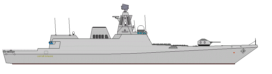 Russian frigate Sergey Gorshkov